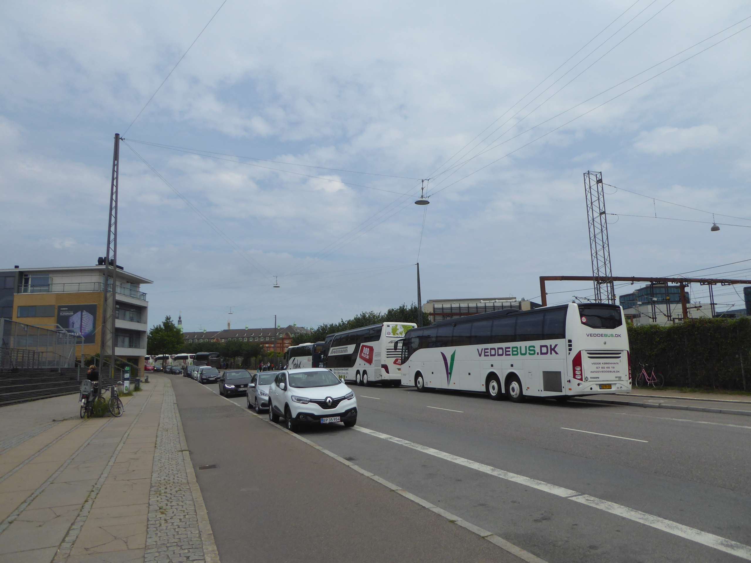 The street Ingerslevsgade in Vesterbro in Copenhagen.